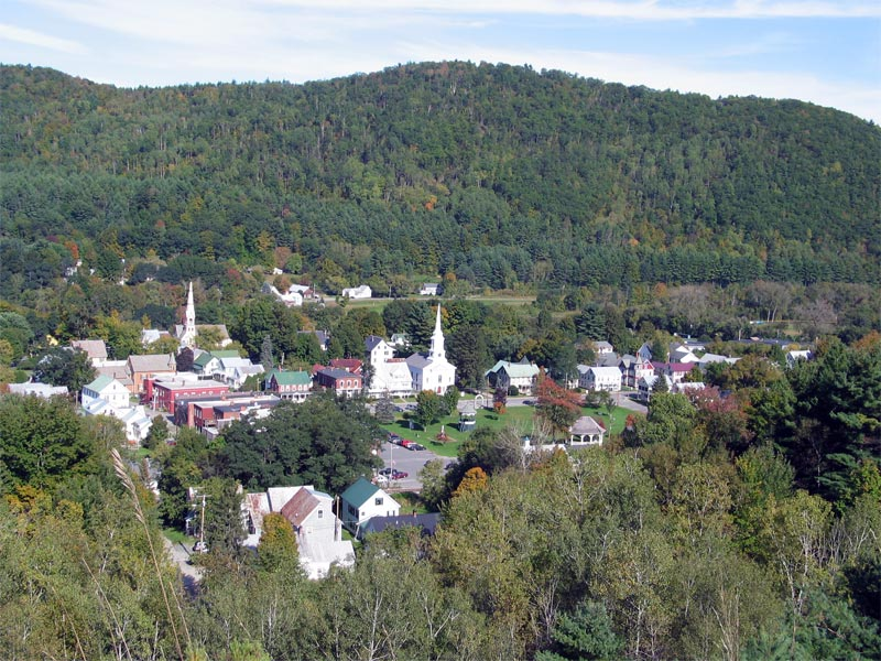 Description: Photograph of South Royalton, Vermont Source: Photograph taken by Jared C. Benedict on 24 September 2004. Full resolution original available at: Copyright: © Jared C. Benedict. See Also: Alternative photo of South Royalton